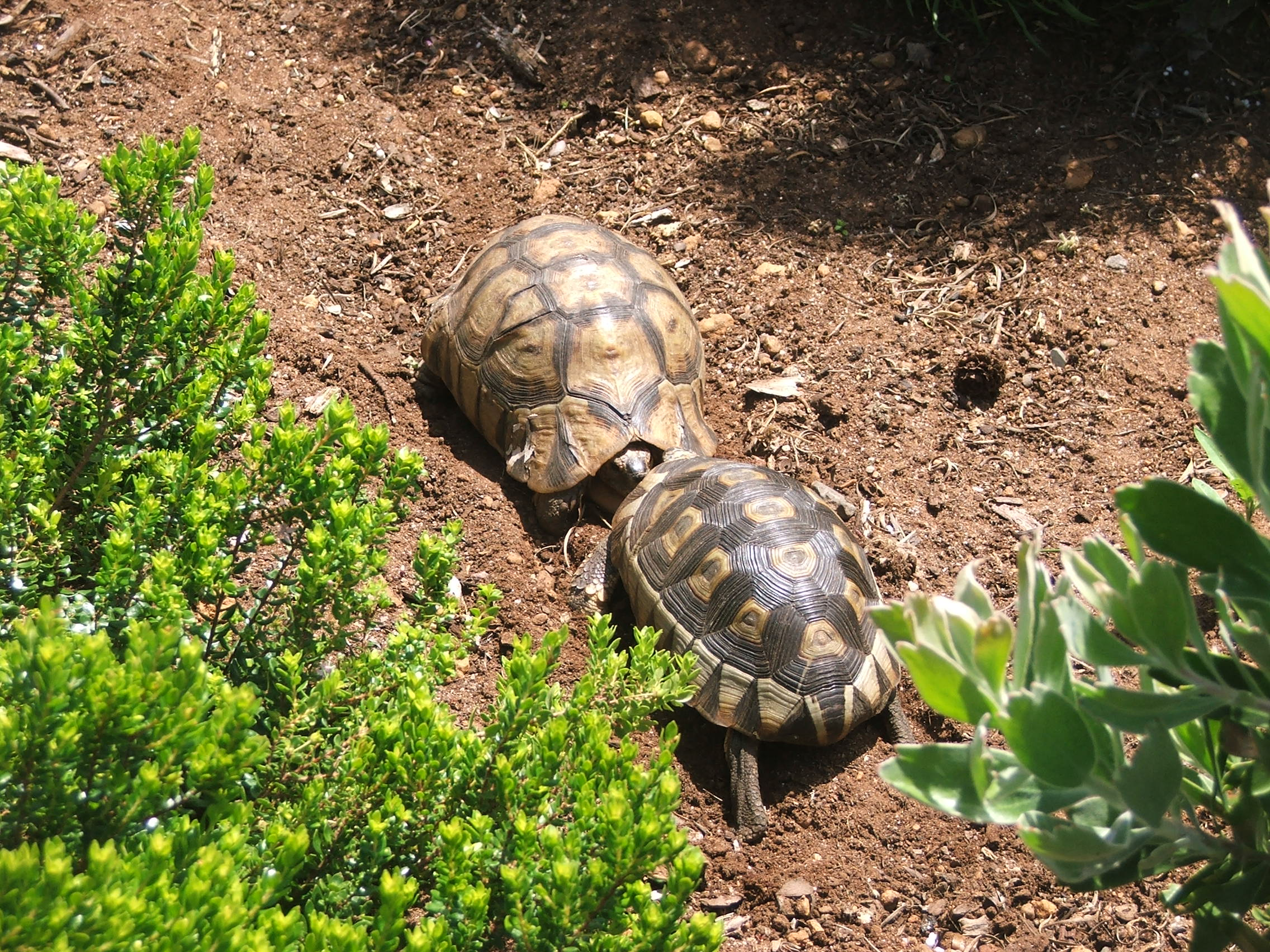 Two male Chersina angulata tortoises fighting. Photographed in Kirstenbosch botanical gardens.